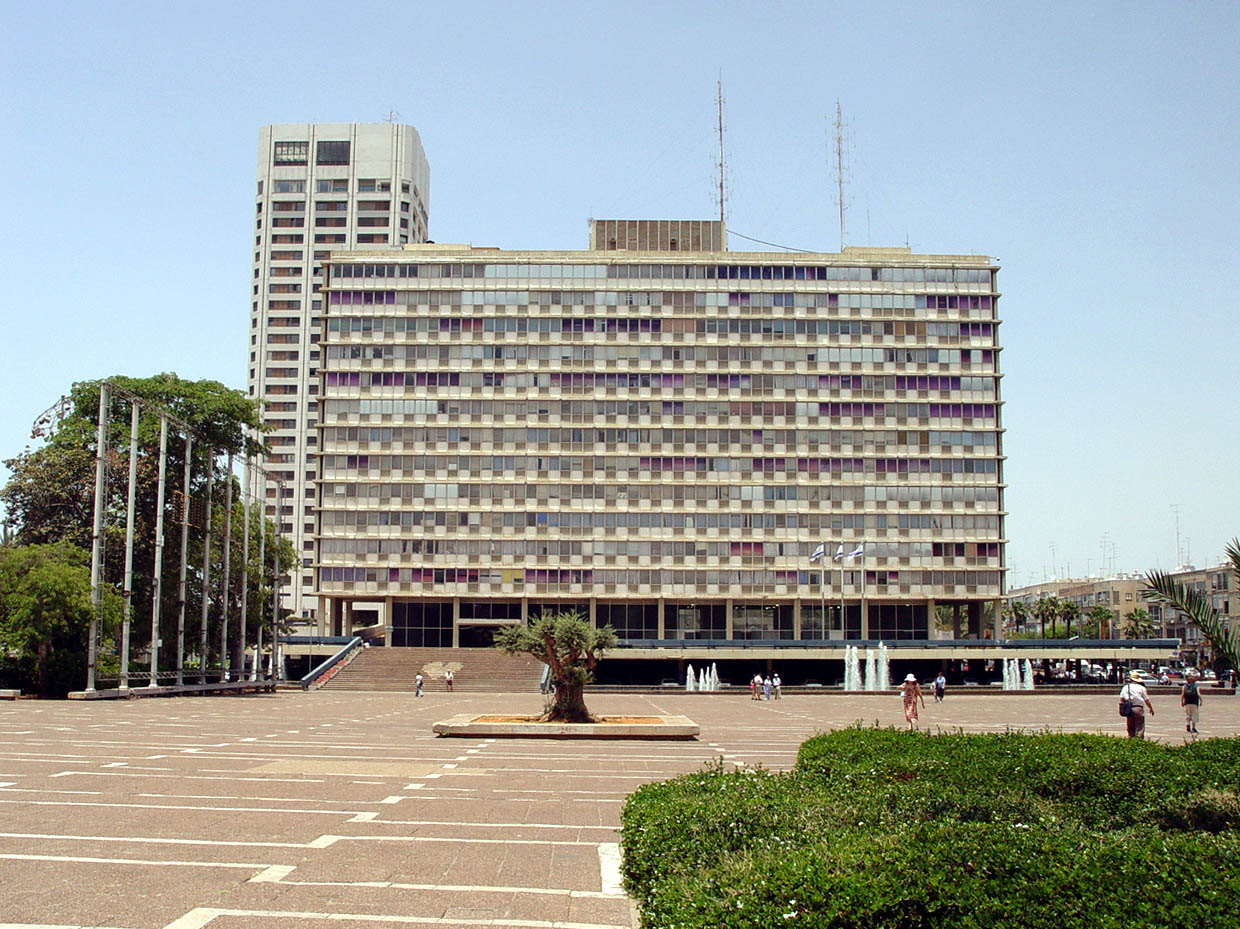 Rabin Square and the City Hall in view to the north, Tel Aviv